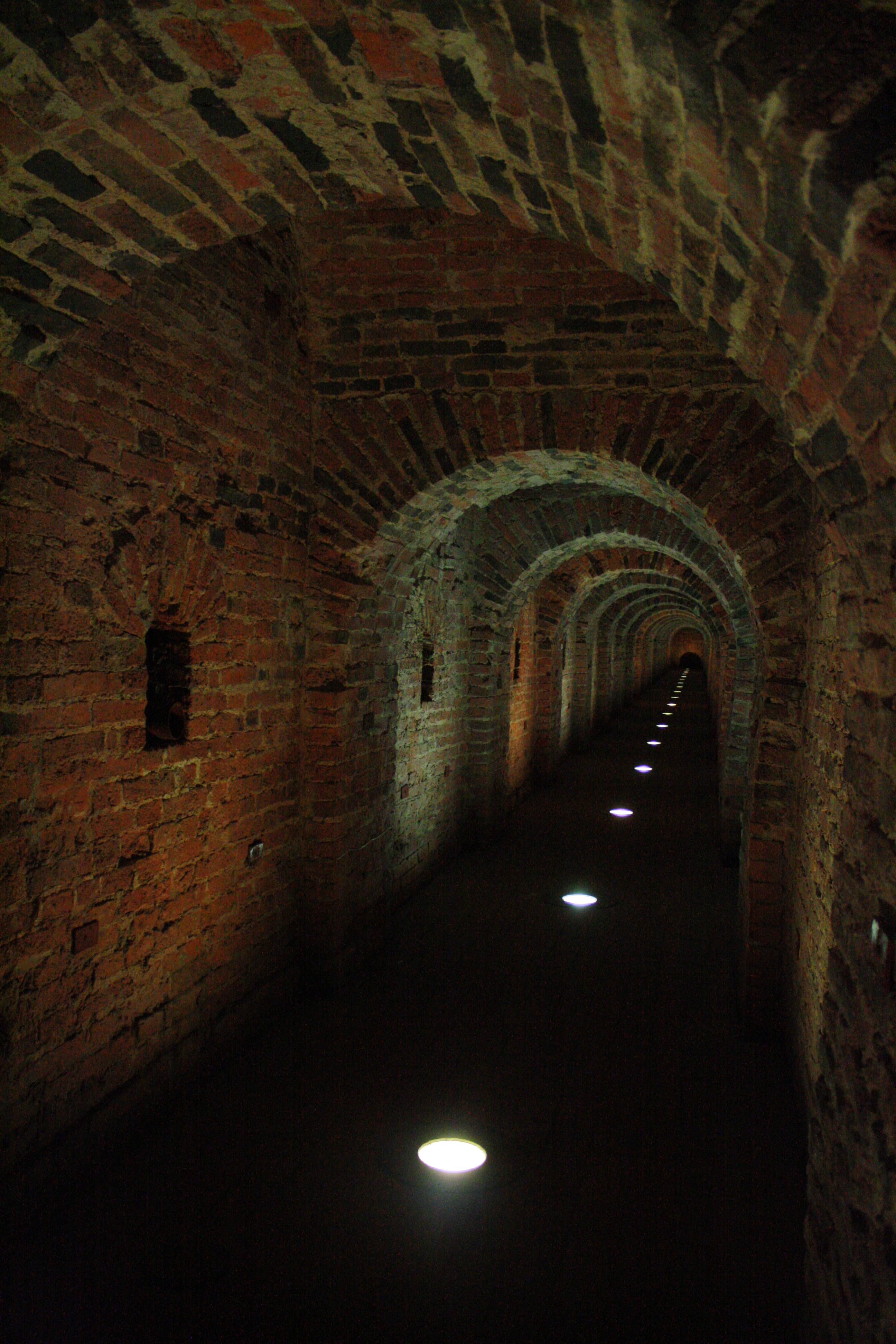 Gosudarev Bastion at the Peter & Paul Fortress.